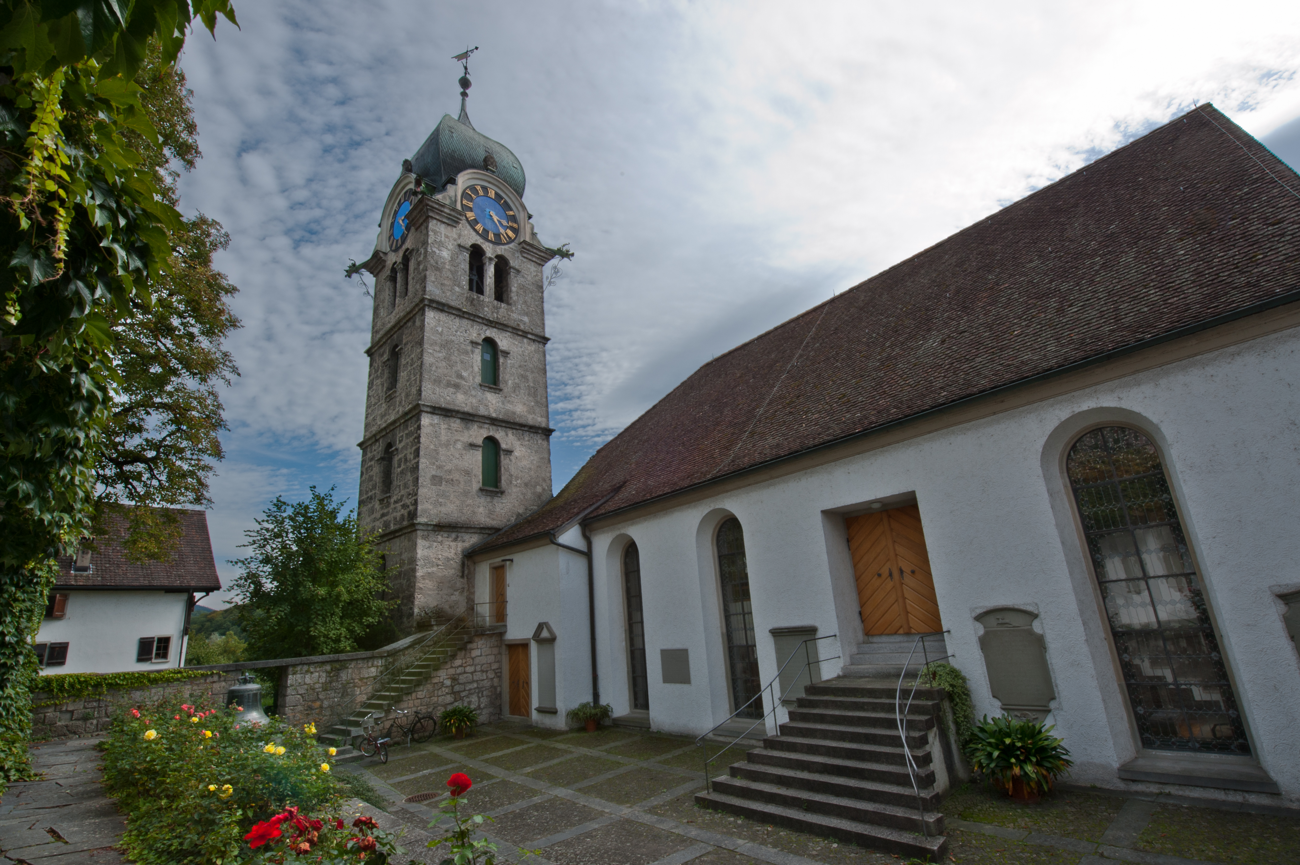 Protestant Church Eglisau